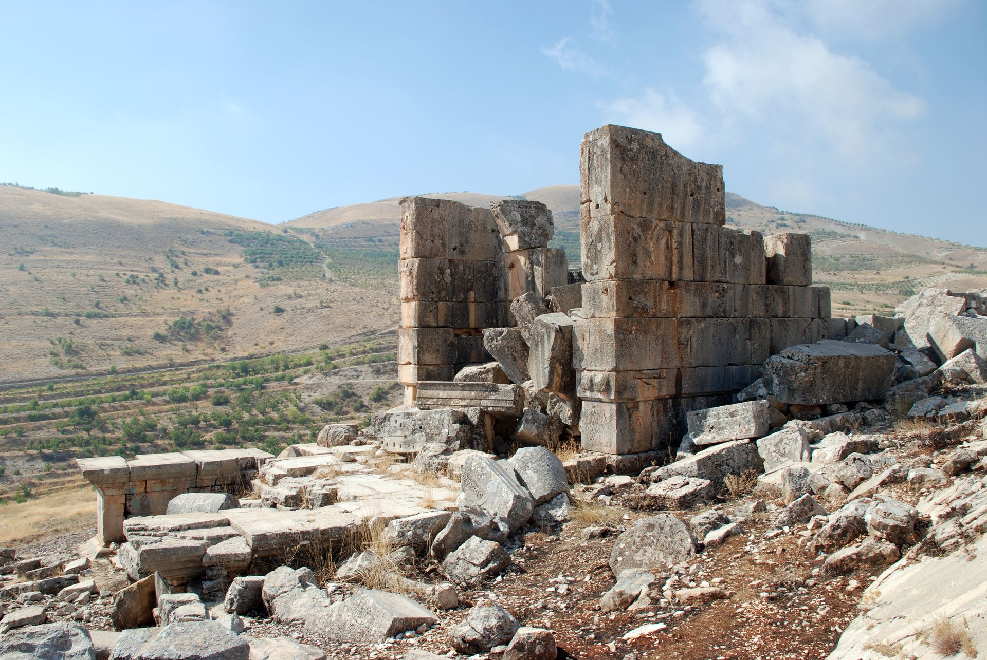 Hosn Niha, above Niha (Zahlé), Lebanon, roman temple A from northeast